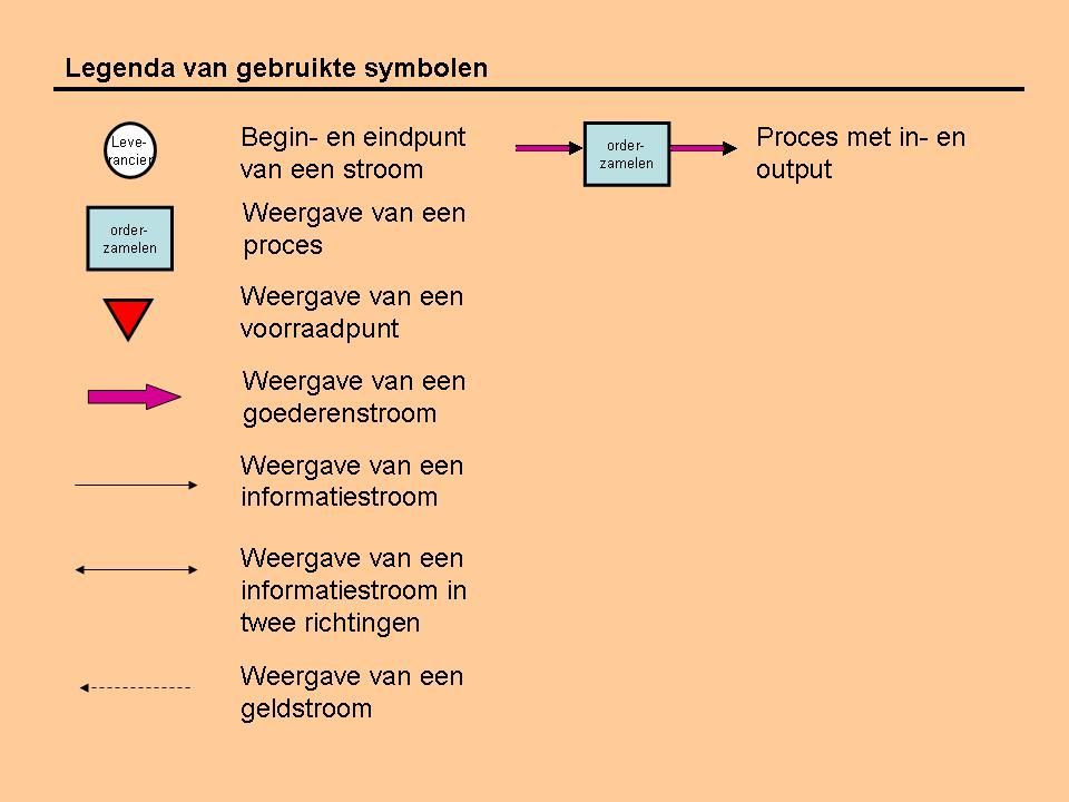 Legend for symbols for logistics diagrams.